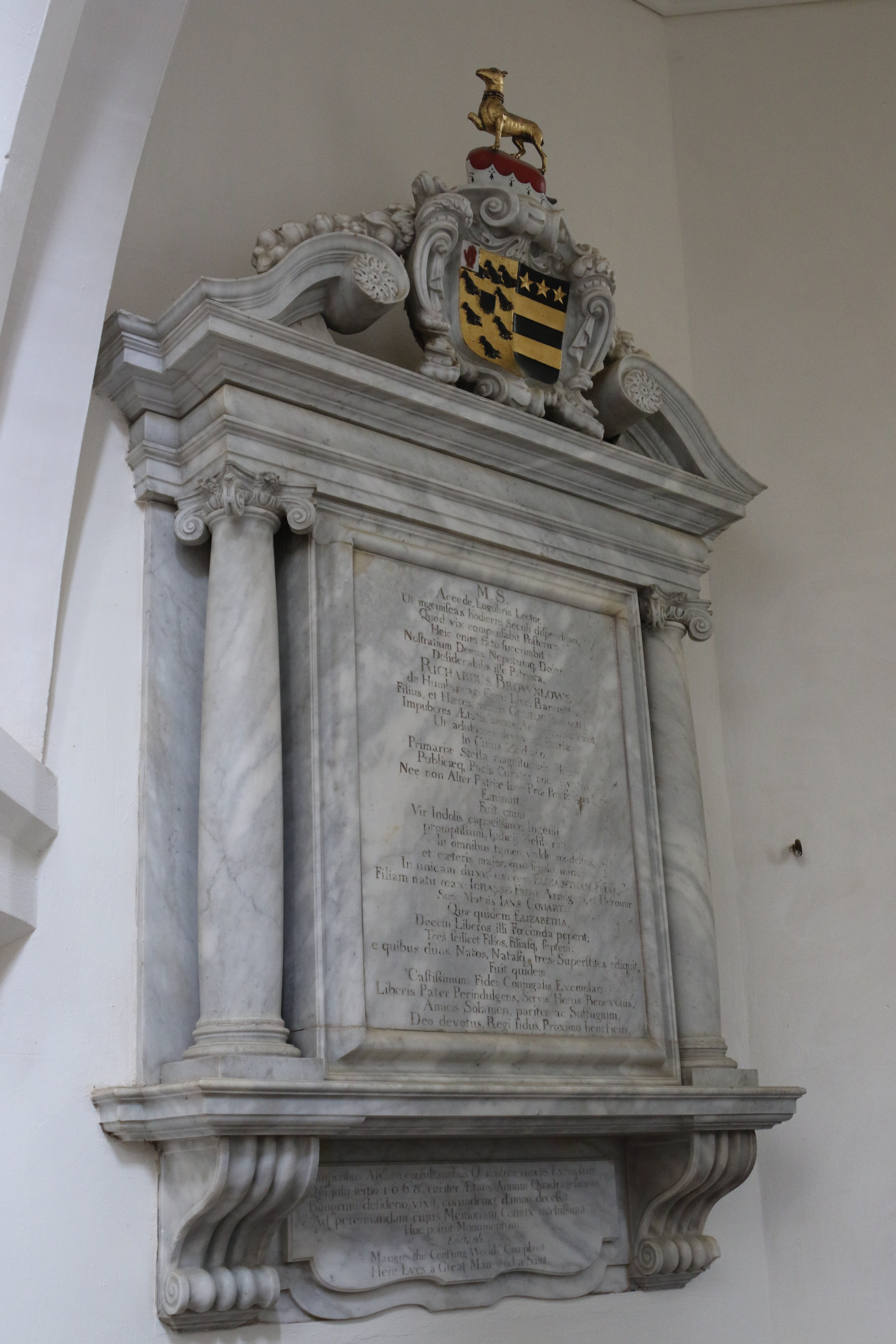 Monument to Sir Richard Brownlow, 2nd Baronet (died 1668), of Humby, Lincolnshire. Belton Church. He married Elizabeth Freke, a daughter of John Freke of Stretton, Dorset. Arms: Brownlow (Or, an escutcheon within an orle of martlets sable) impaling Freke (Sable, two bars or in chief three mullets of the last). He was the father of Sir John Brownlow, 3rd Baronet (26 June 1659 – 16 July 1697) of Belton House near Grantham in Lincolnshire, Member of Parliament, who built the surviving Belton House, and was also father of Sir William Brownlow, 4th Baronet (1665-1701).